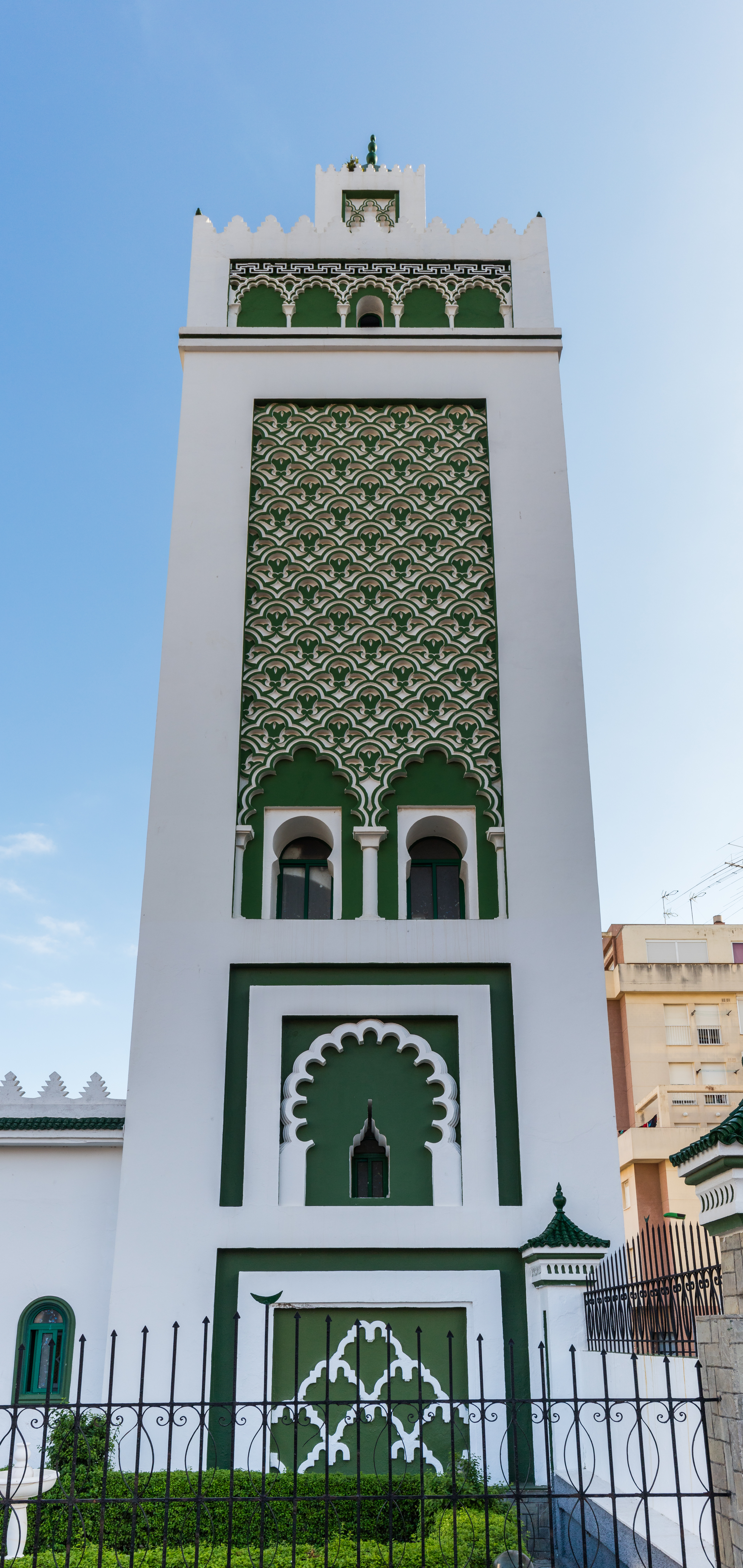 Muley El Mehdi Mosque, Ceuta, Spain